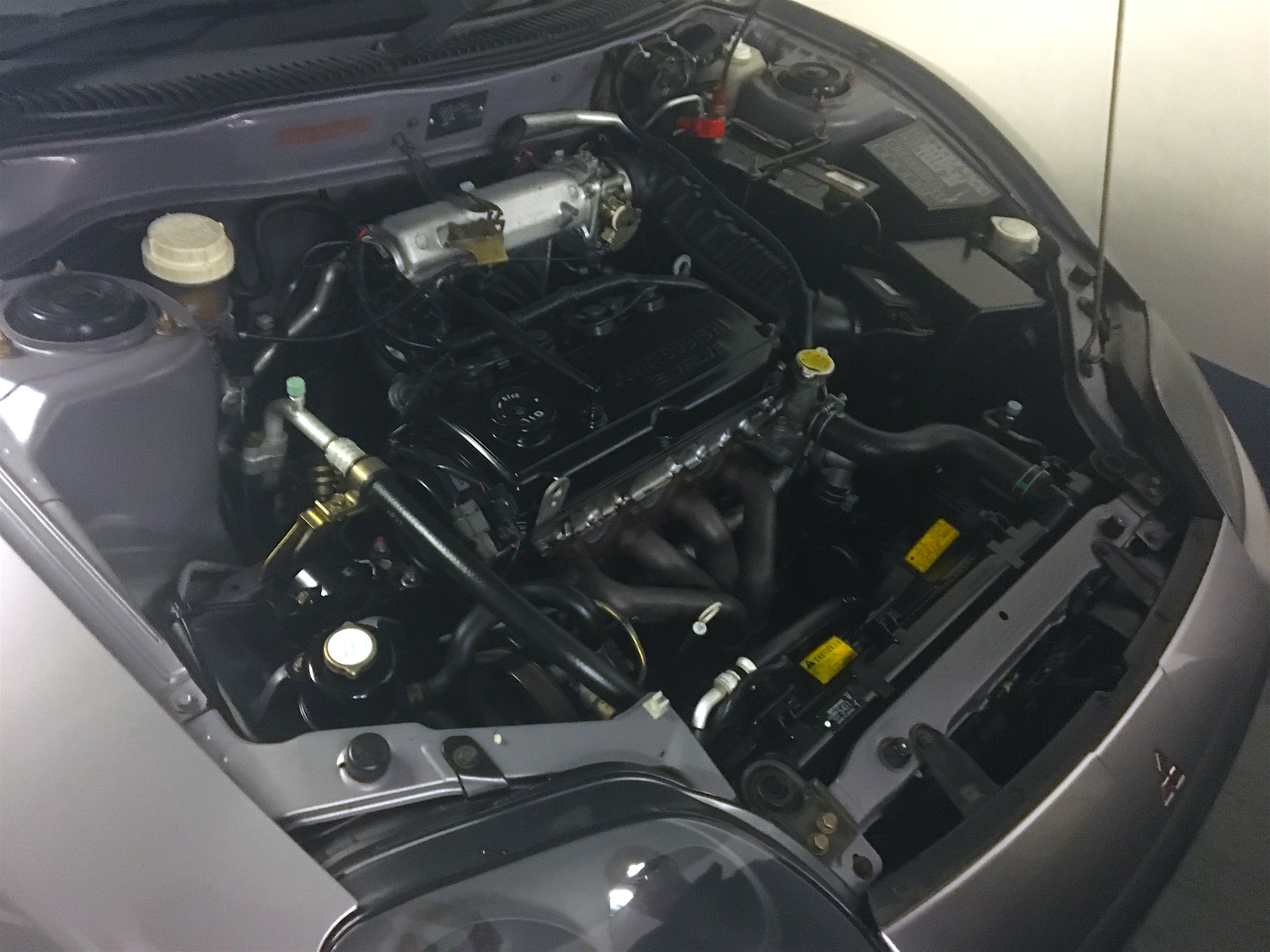 Mitsubishi preface 'Steel Silver' GS Model engine bay, showing 1.8 inline-4 engine unit.